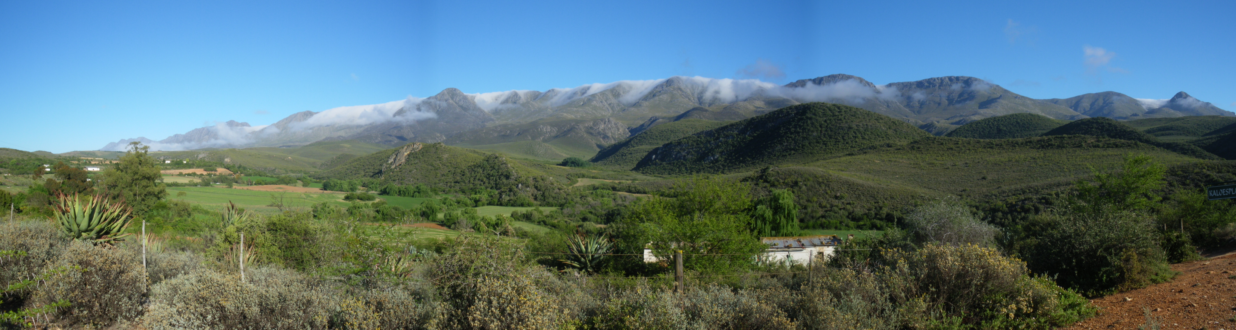 Swartberg (Greater Swarteberg), Western Cape Province, South Africa. Swartberg Pass in front